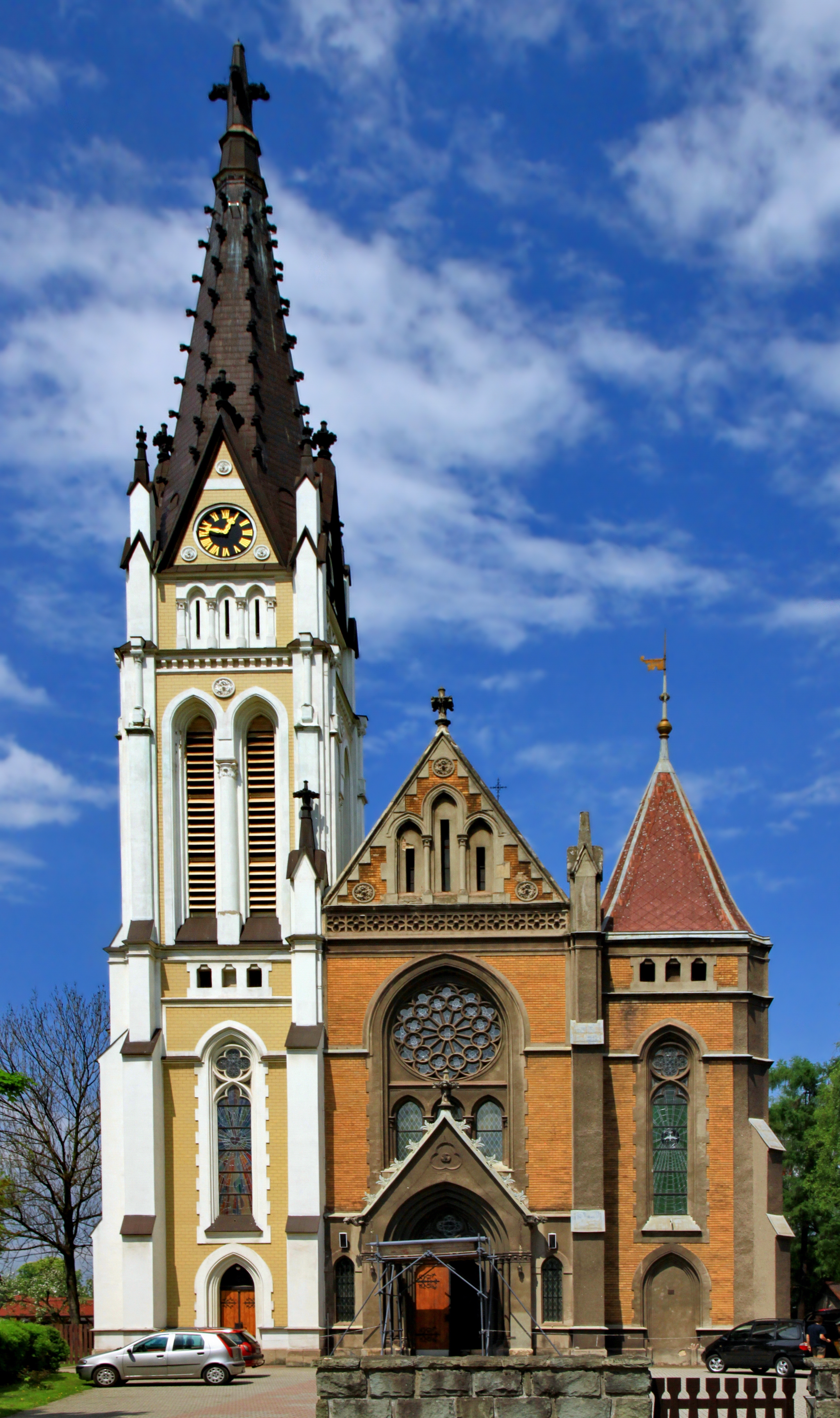 The Parish Church of the Sacred Heart of Jesus, Český Těšín, Masaryk Park